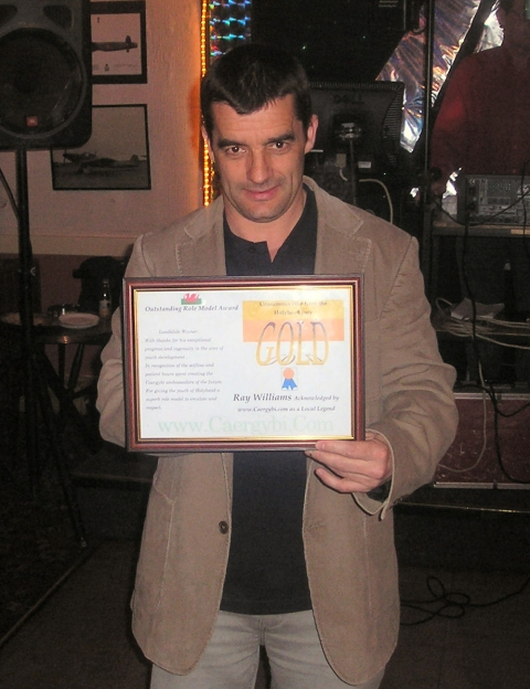 Ray Williams (Weightlifter) in March 2006.